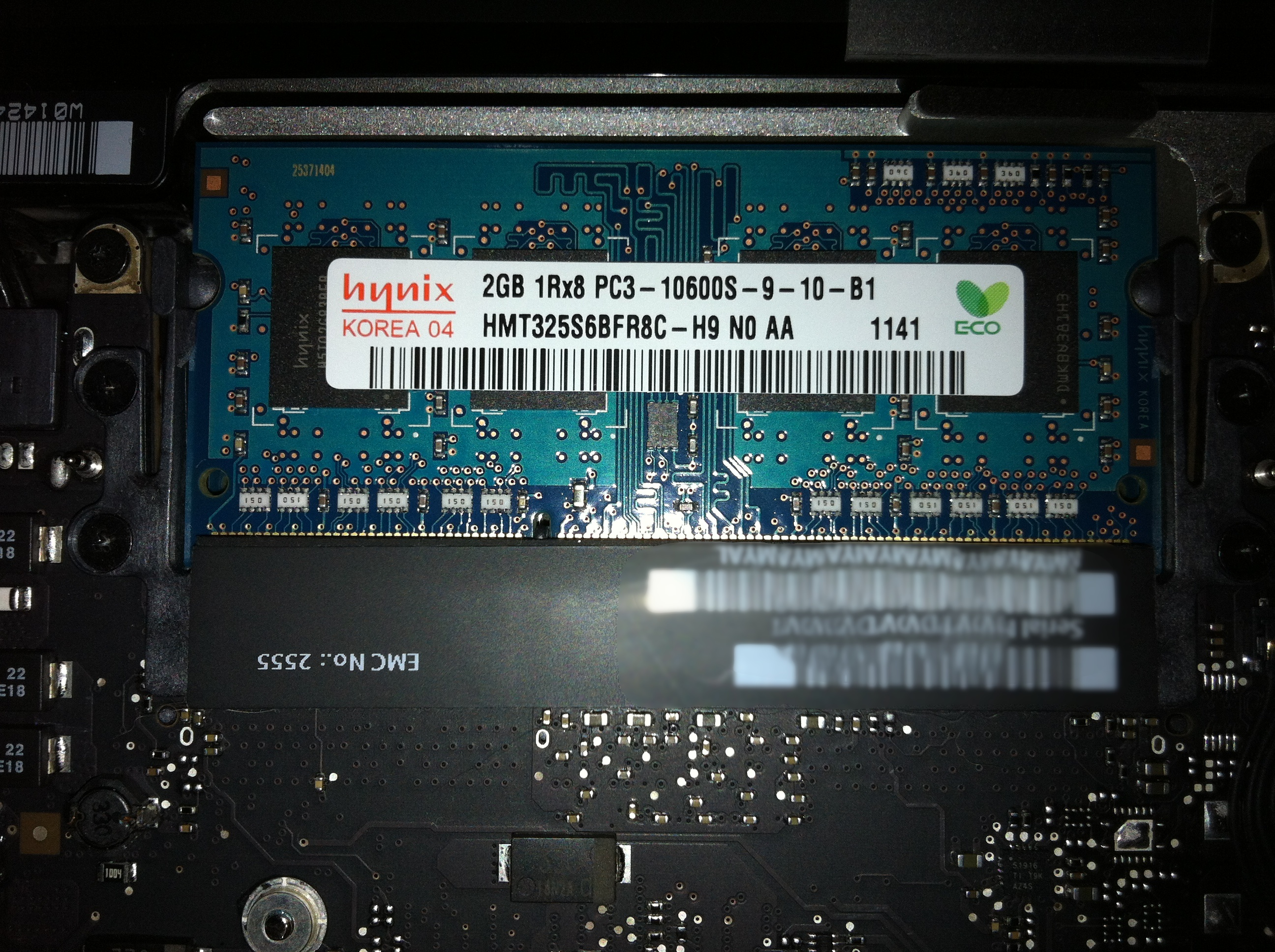 Main memory module on MacBook Pro mainboard: Hynix HMT325S6BFR8C-H9. 2GB SO-DIMM DDR3 1333MHz.